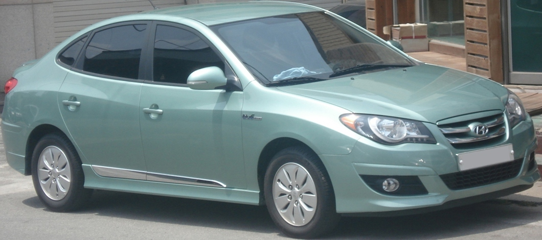 Hyundai Avante LPi Hybrid